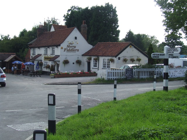 The Merry Fiddlers, Fiddlers Hamlet near Epping